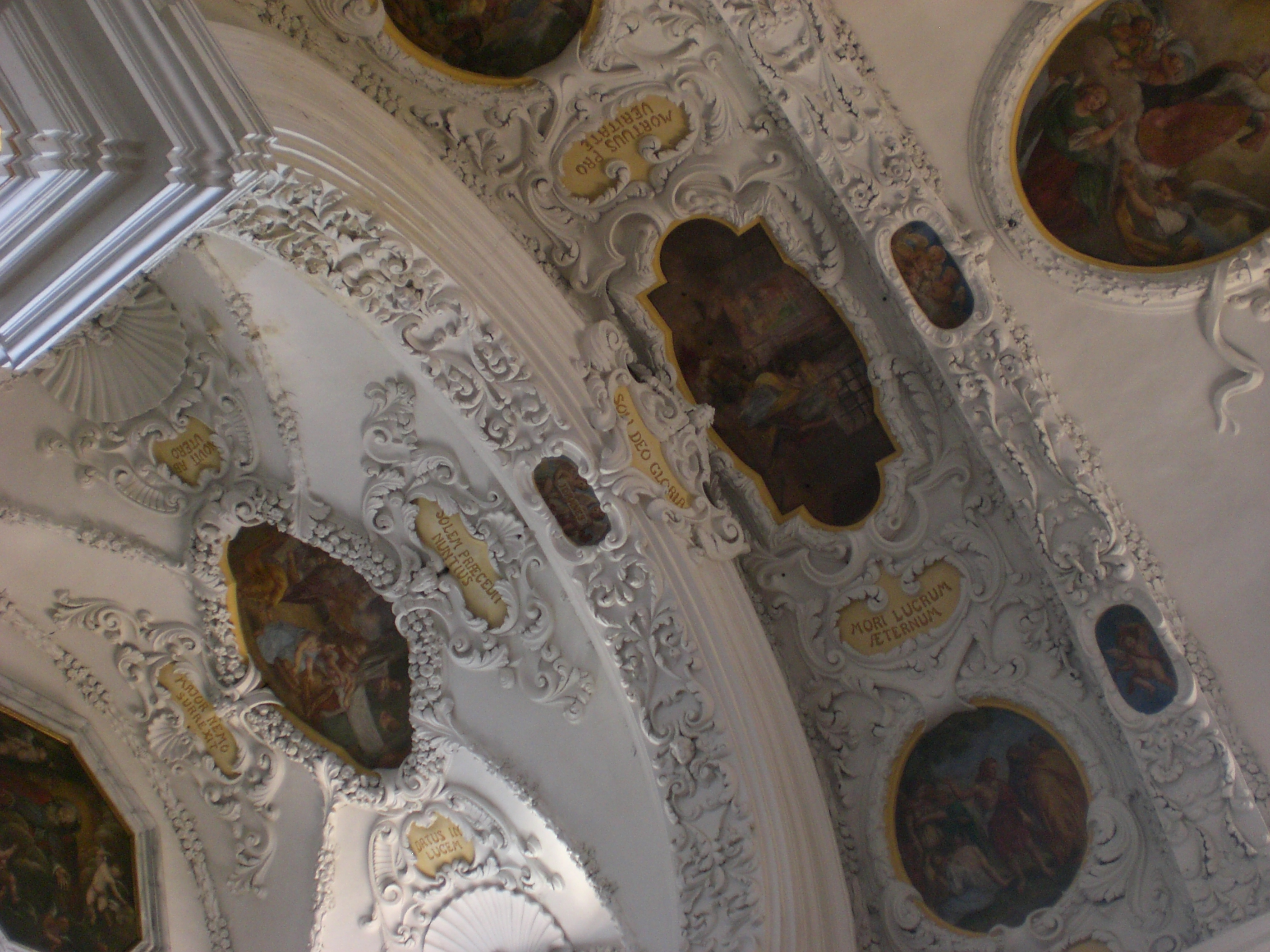 Jesi, St. John the Baptist's Church, XVII Century